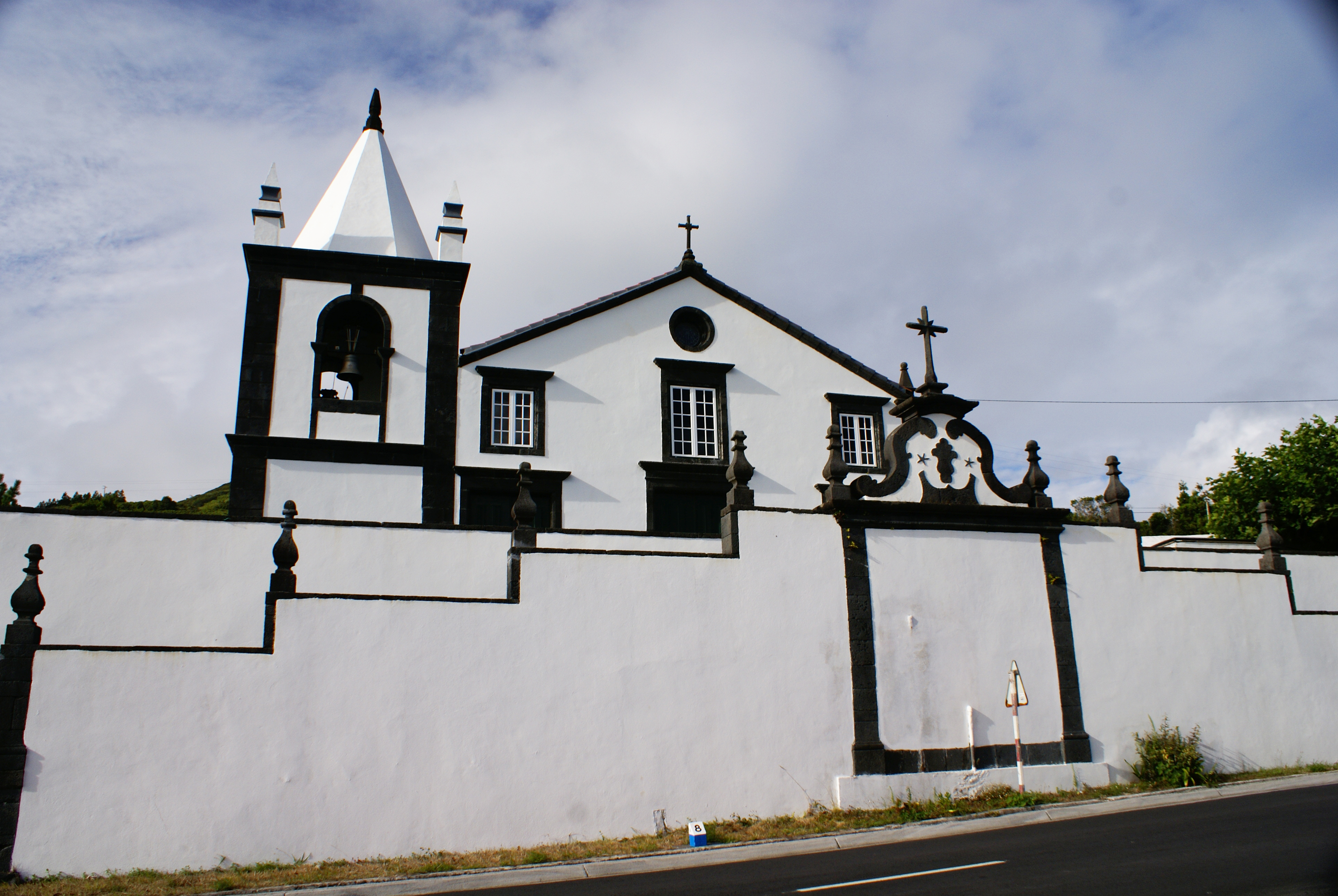 Igreja de Santa Ana, Fachada, Capelo, concelho da Horta, ilha do Faial, Açores, Portugal